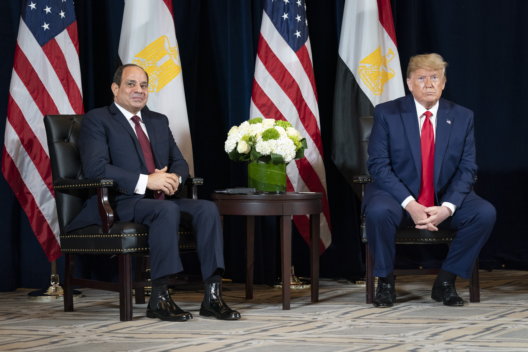 President Donald J. Trump participates in a bilateral meeting with the President of the Arab Republic of Egypt Abdel Fattah el-Sisi Monday, Sept. 23, 2019, at the InterContinental New York Barclay in New York City. (Official White House Photo by Shealah Craighead)